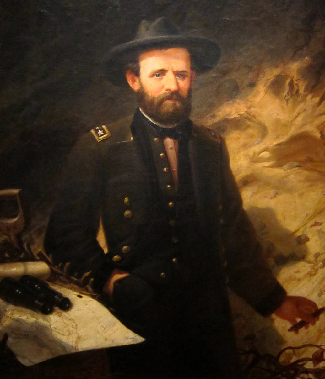 A portrait of Ulysses S. Grant